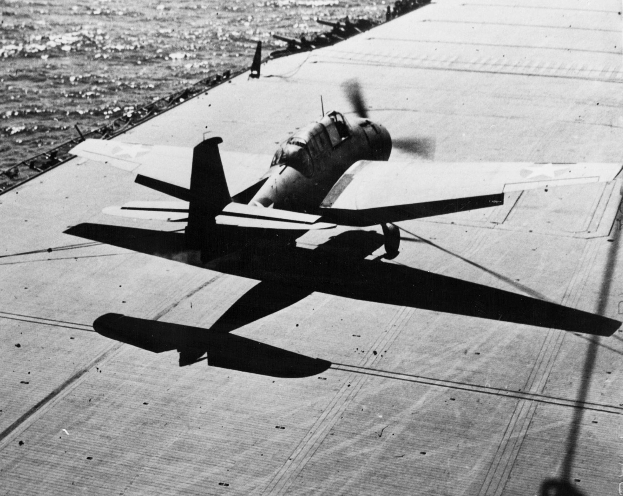 A damaged U.S. Navy Grumman TBF-1 Avenger assigned to Torpedo Squadron VT-8 makes a landing on board the aircraft carrier USS Saratoga (CV-3) without the benefit of a tailhook while the carrier operates off the Solomons. Note that the arrestor wire has caught the main undercarriage. The TBF only suffered some bent propeller blades.